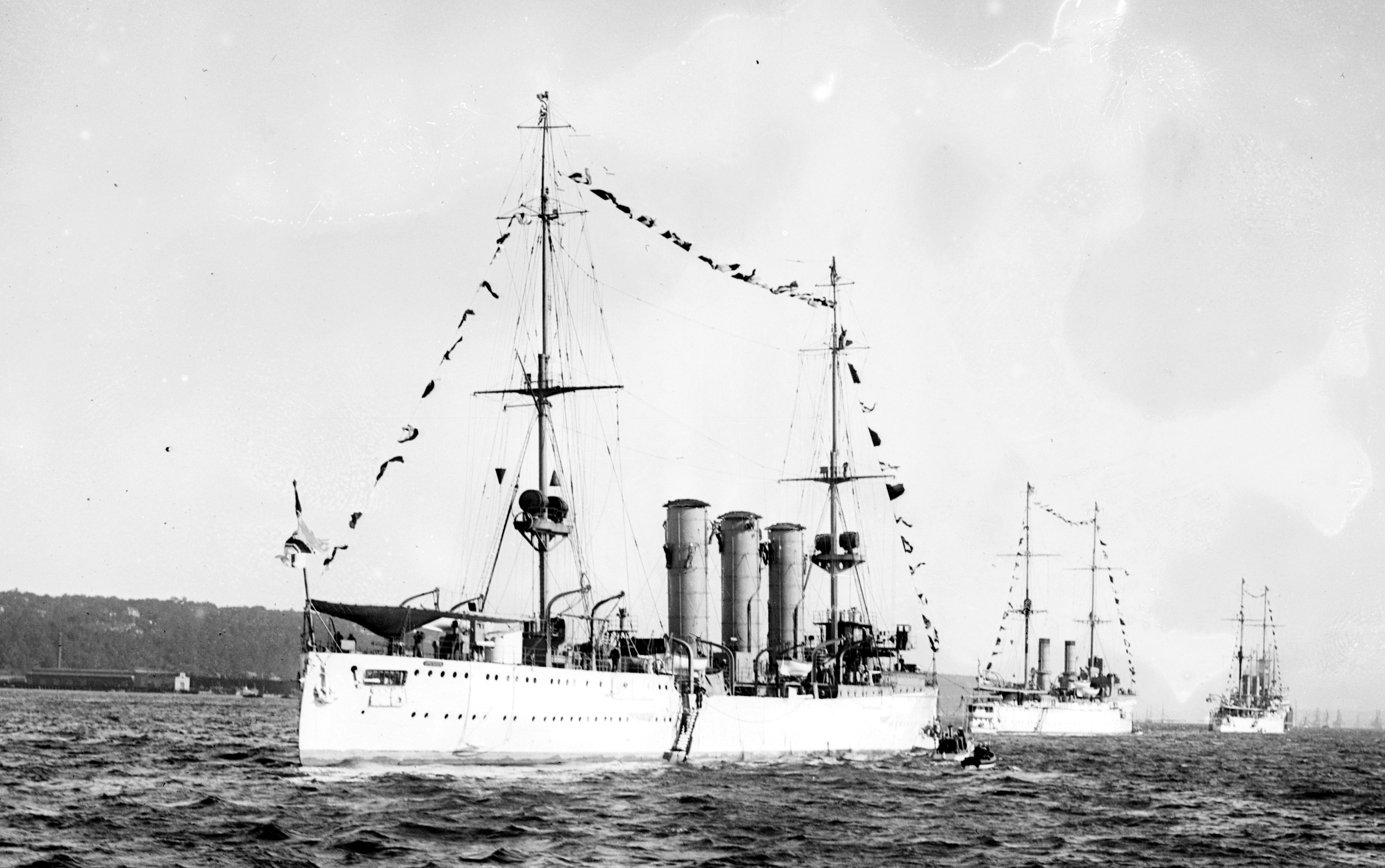 German cruiser SMS Dresden. Picture token between 24.September and 9.October 1909 during fleet parade in New York